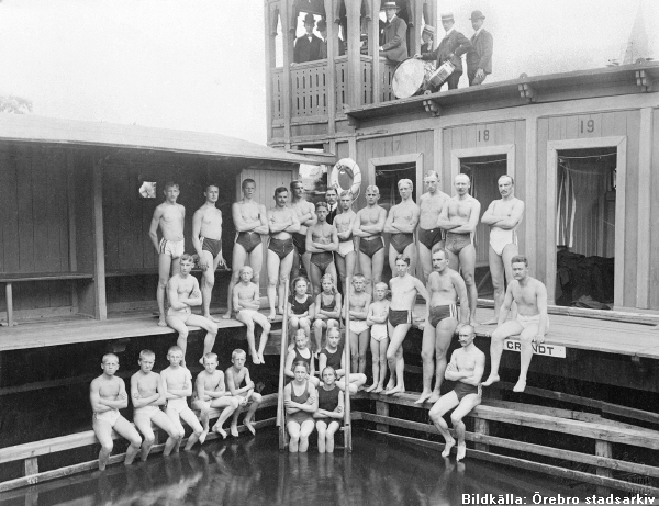 The cold baths in Örebro, Sweden